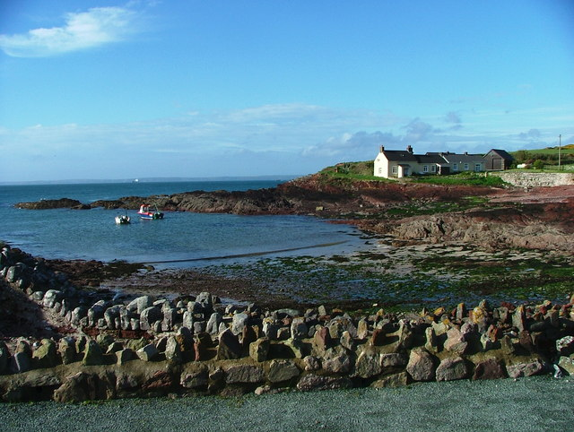 St Brides The tiny anchorage at St Brides on a fine day !!